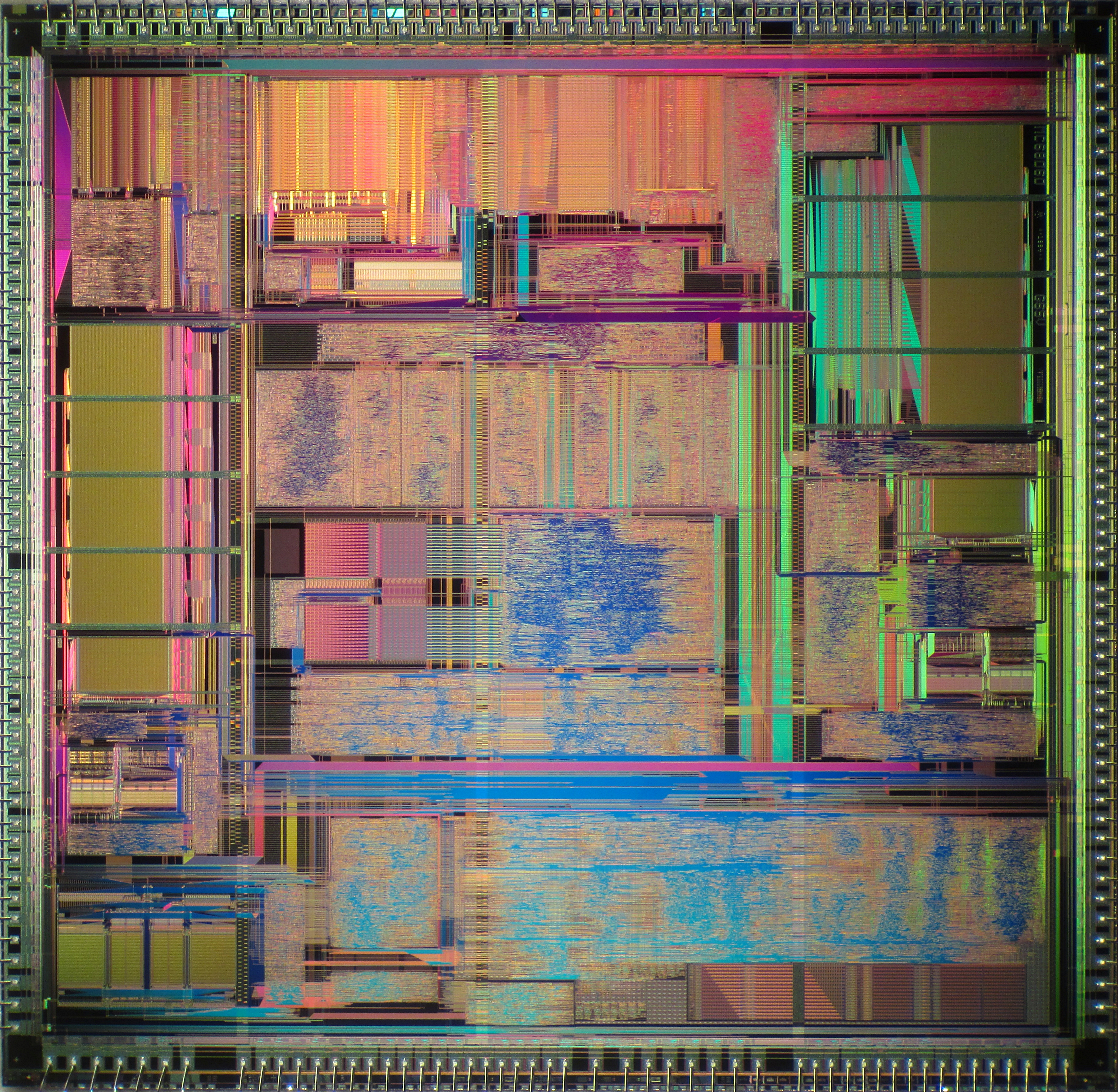 Die shot of Motorola 68060 microprocessor (XC68060RC50A, 01G65V mask).